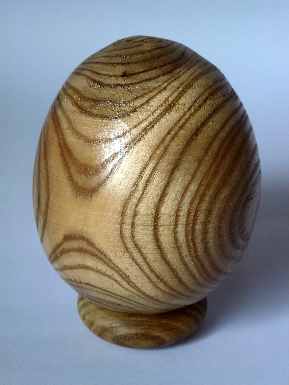 This object shows the beautiful grain of staghorn sumac wood.